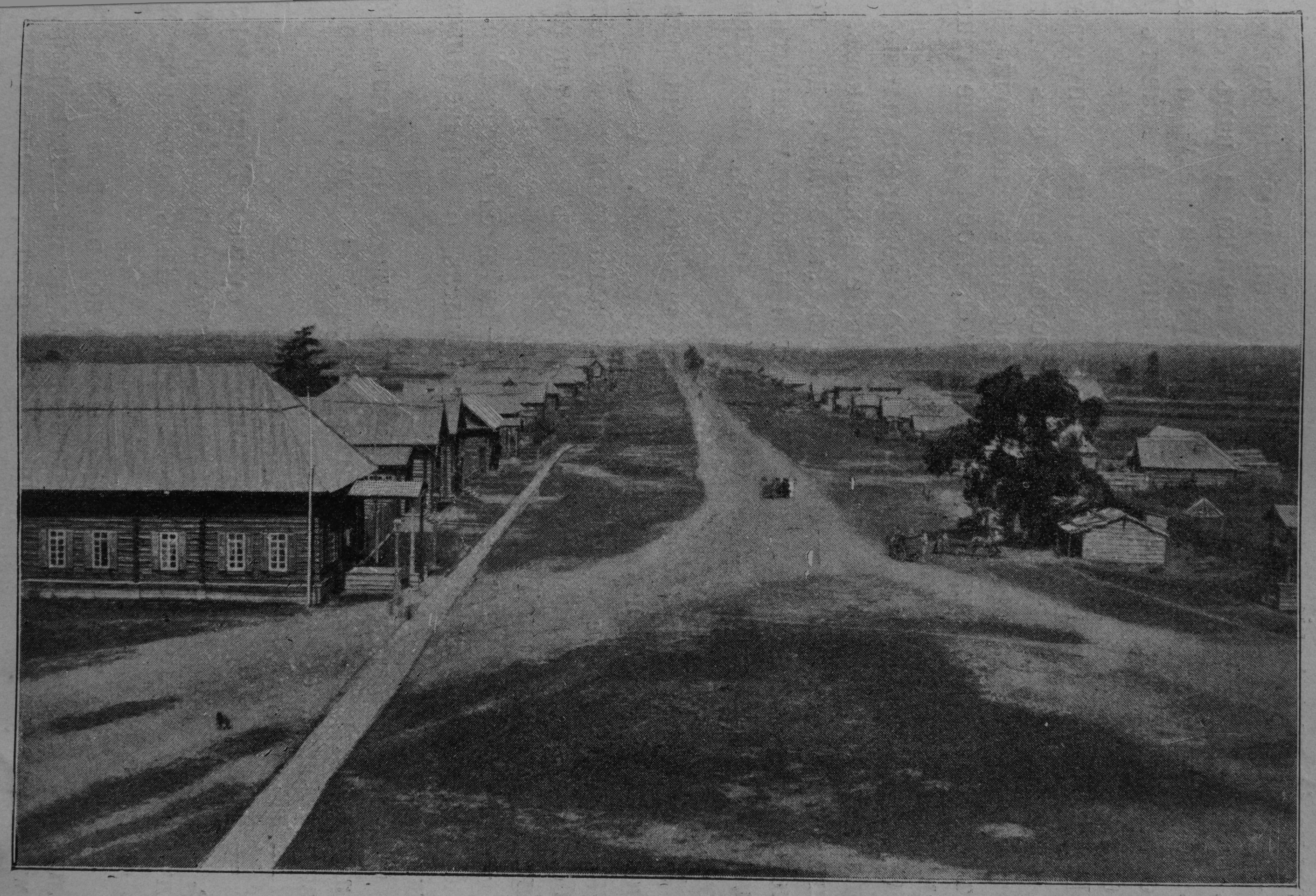 Street in Rykovskoye